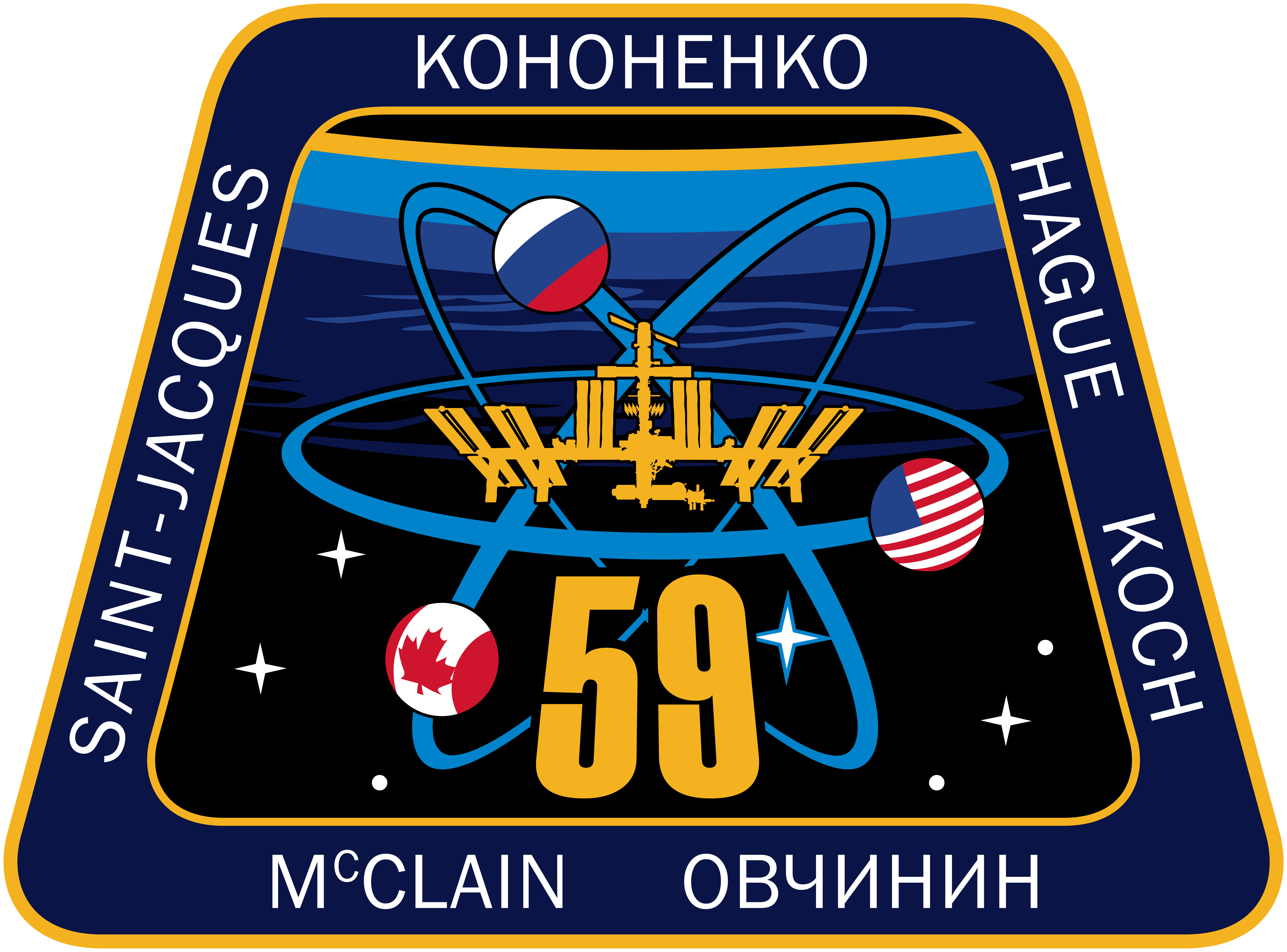 The Expedition 59 crew insignia